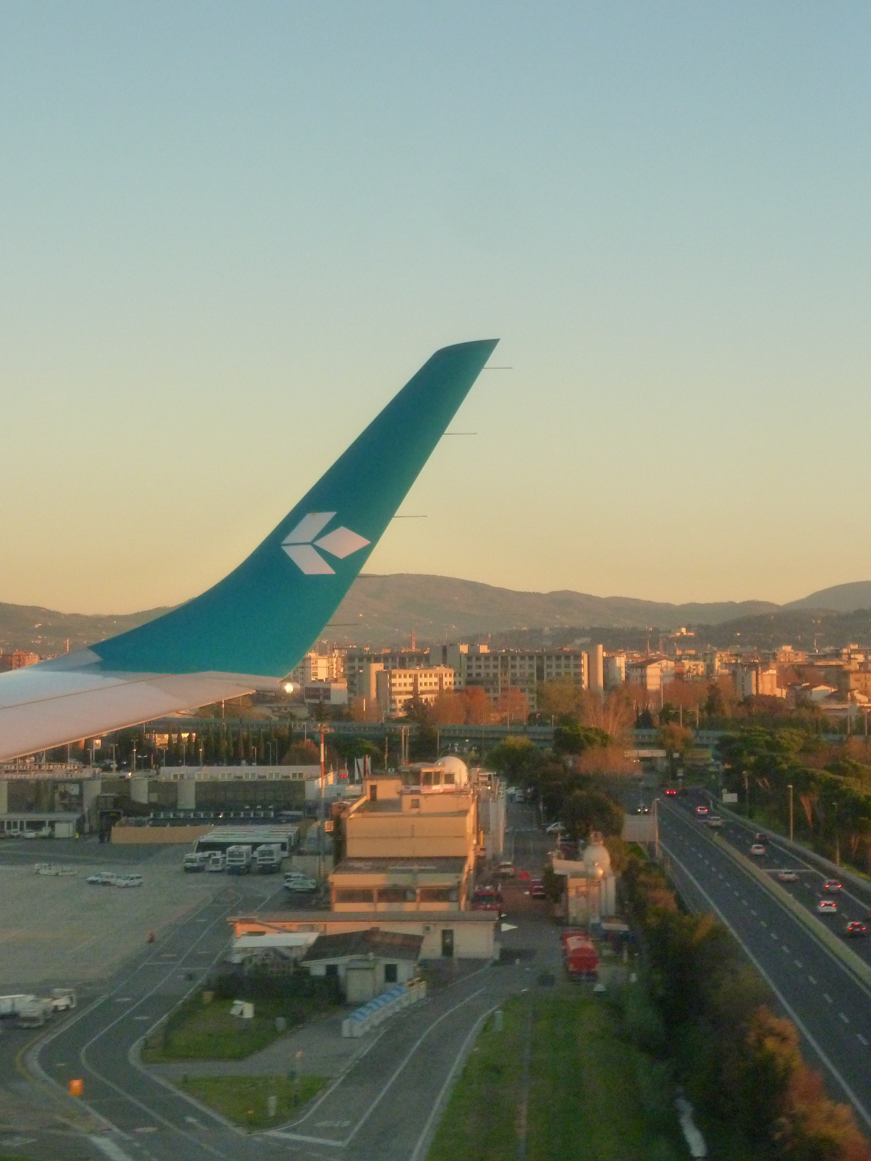 Landing at Florence Amerigo Vespucci airport. PIc taken from an Air dolomiti Embraer 195.